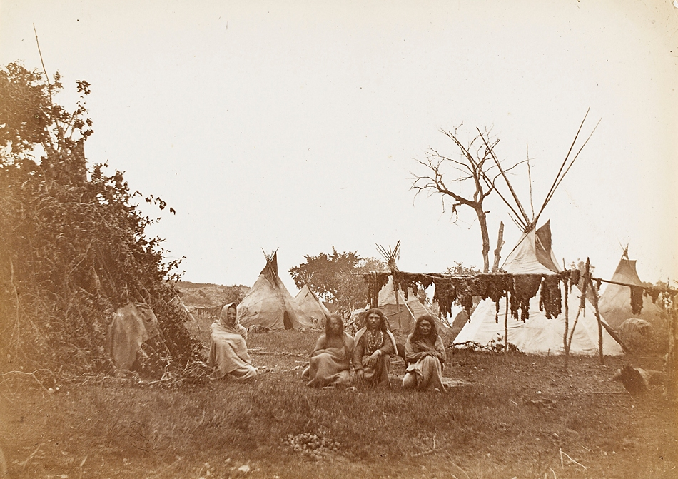 Arapaho camp Four Men in Native Dress in Camp; Meat Drying on Rack, Brush Structure, and Tipis Nearby 1869.[1] “This photograph is said to be of an Arapaho camp near Camp Supply. The picture was taken by Soule in 1870. The band camped here had just completed a successful buffalo hunt, for there is meat hanging to dry, both in the foreground and also just over the head of the man wrapped in the blanket on the left. The reason for the large pile of brush is not known. It may have been built as a wind-break or sun shade, although for the latter purpose an arbor was usuallly erected, so that the air could circulate.” —Smithsonian Institution, Bureau of American Ethnology, In: Wilbur Sturtevant Nye, Plains Indian raiders : the final phases of warfare from the Arkansas to the Red River, with original photographs by William S. Soule. University of Oklahoma Press, 1st edition, 1968, ISBN 0806111755, p340.